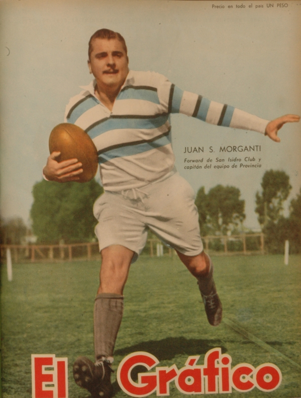 Juan Morganti, forward of Argentine rugby club San Isidro Club (SIC)